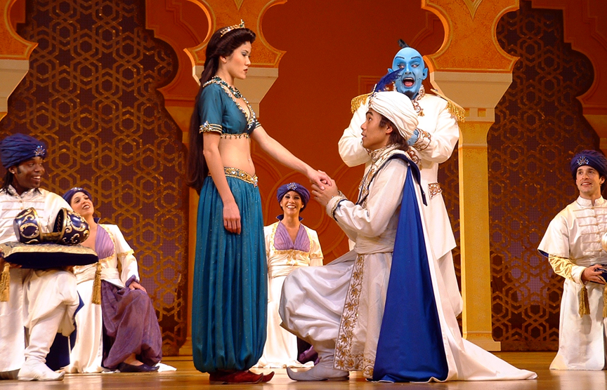 Photo taken at "Disney's Aladdin A Musical Spectacular" Show in 2003.